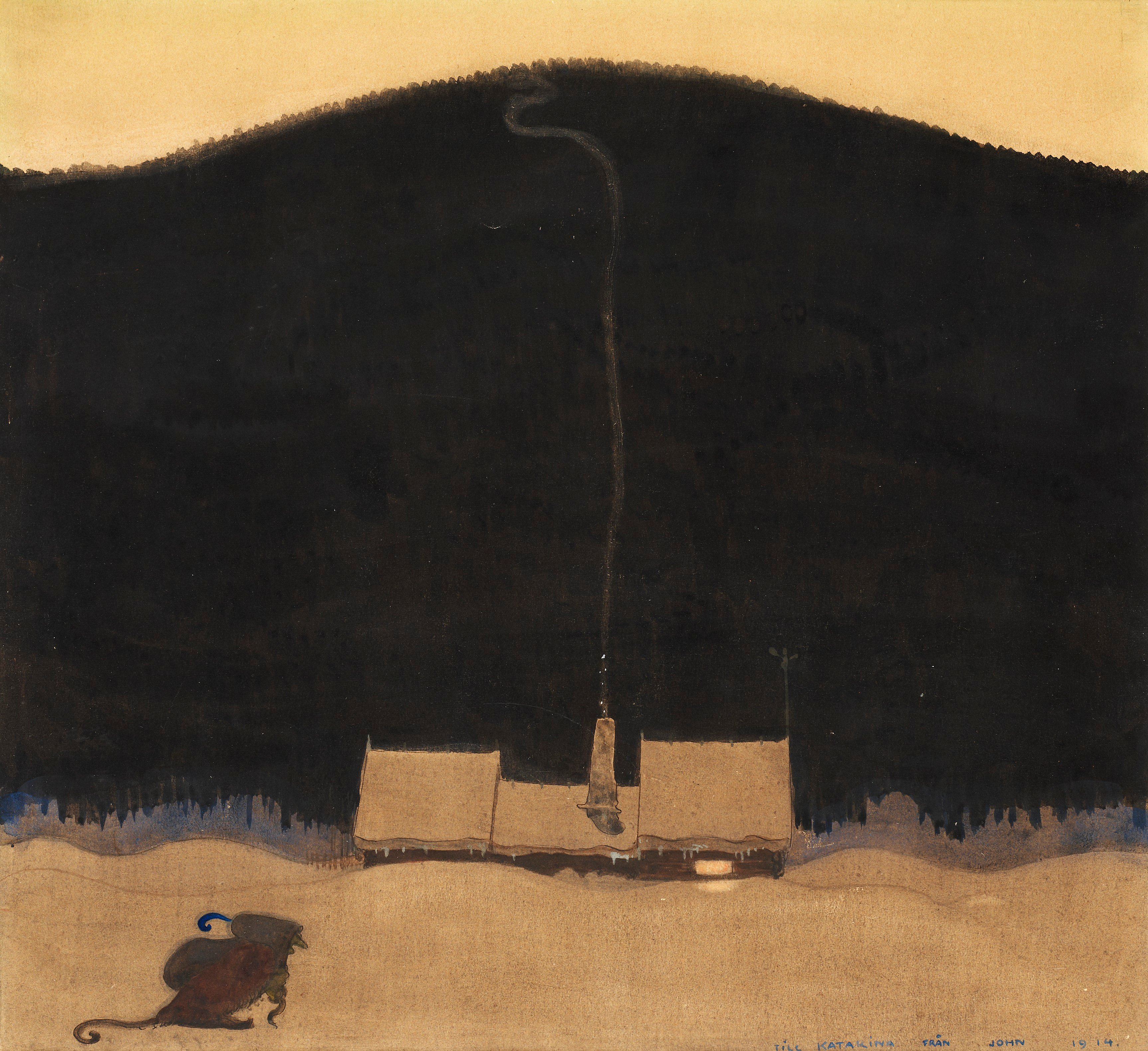 Illustration for " När Trollmor skötte Kungens Storbyk " by Elsa Beskow in "Bland tomtar och troll" (Among gnomes and trolls), 1914. See also Image:John Bauer troll near door.jpg and Image:Inga by John Bauer 1914.jpg from the same story.